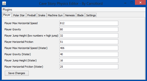 A special hex editor for the game Cave Story, also known in Japanese as Doukutsu Monogatari. This hex editor provides an easy to use GUI system for people who don't understand hexadecimal or programming. It possesses plugin support, so that means people who do know programming can use it to perform any kind of hex editing on any file. I personally wrote this program in Java.